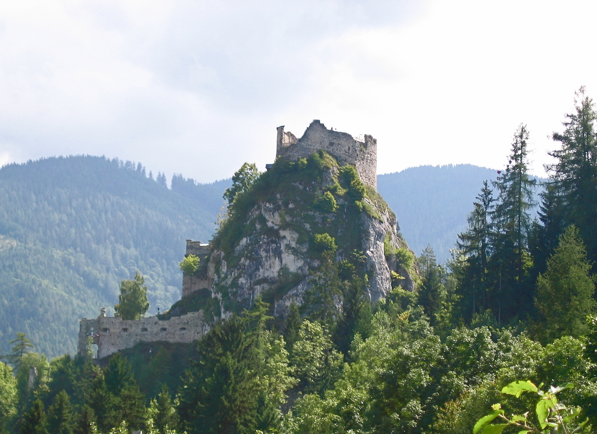 Eppenstein